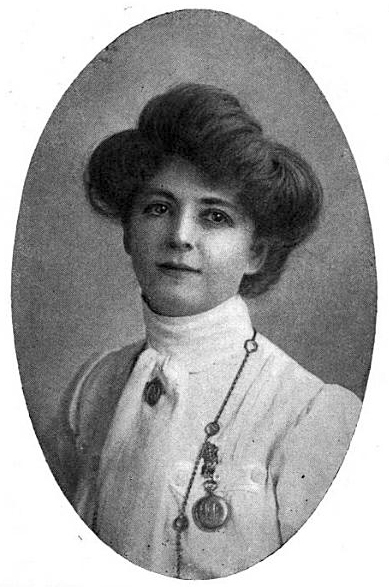 Lillian Lawrence, American actress